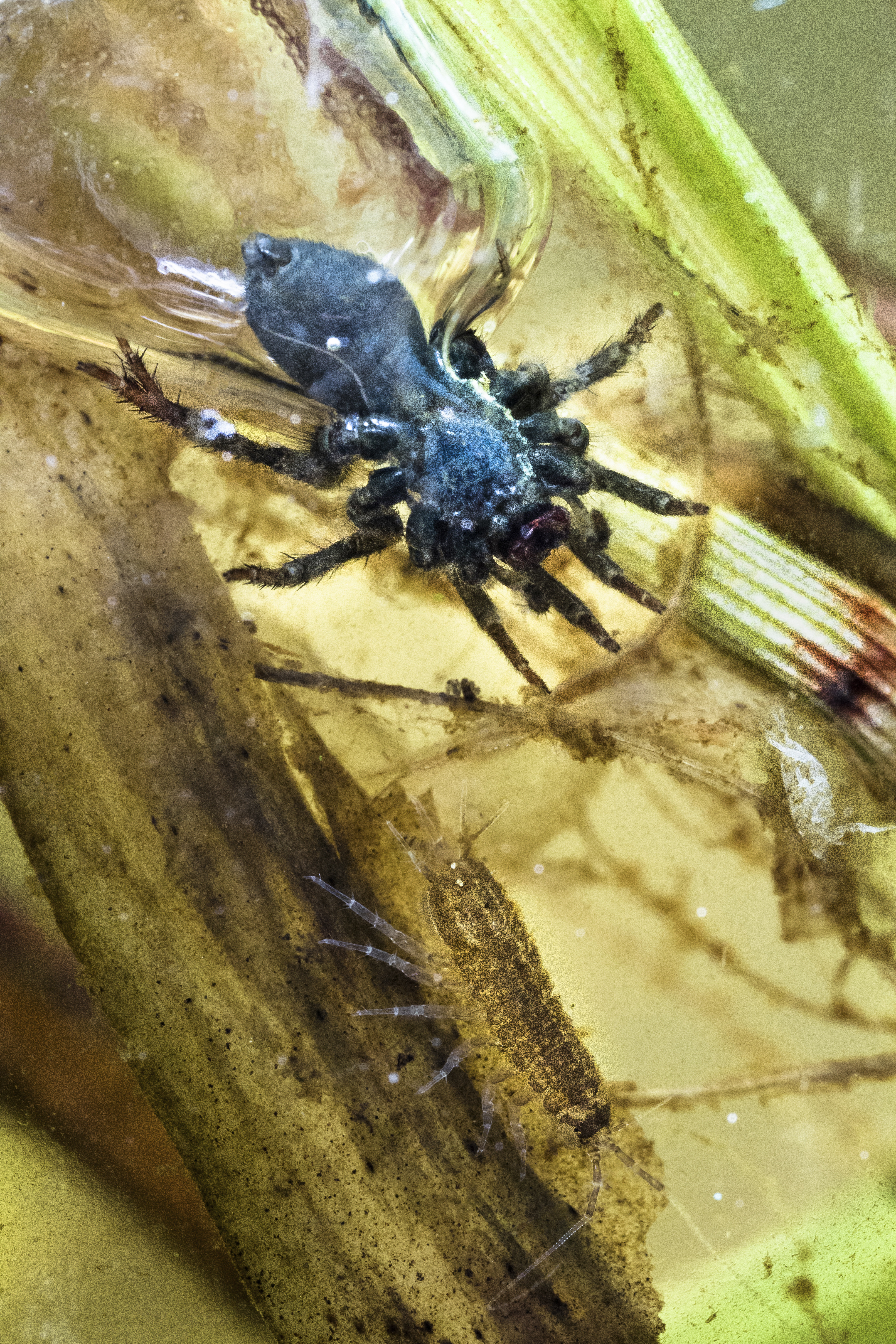 Waterspider (Argyroneta aquatica) and freshwater crustacean (Asellus aquaticus). Rahaaugu nature protection area in Estonia.